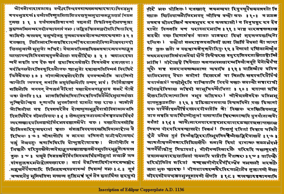 Edilpur copperplate in an historical inscription of Sena dynasty of Bengal, made after the [1]